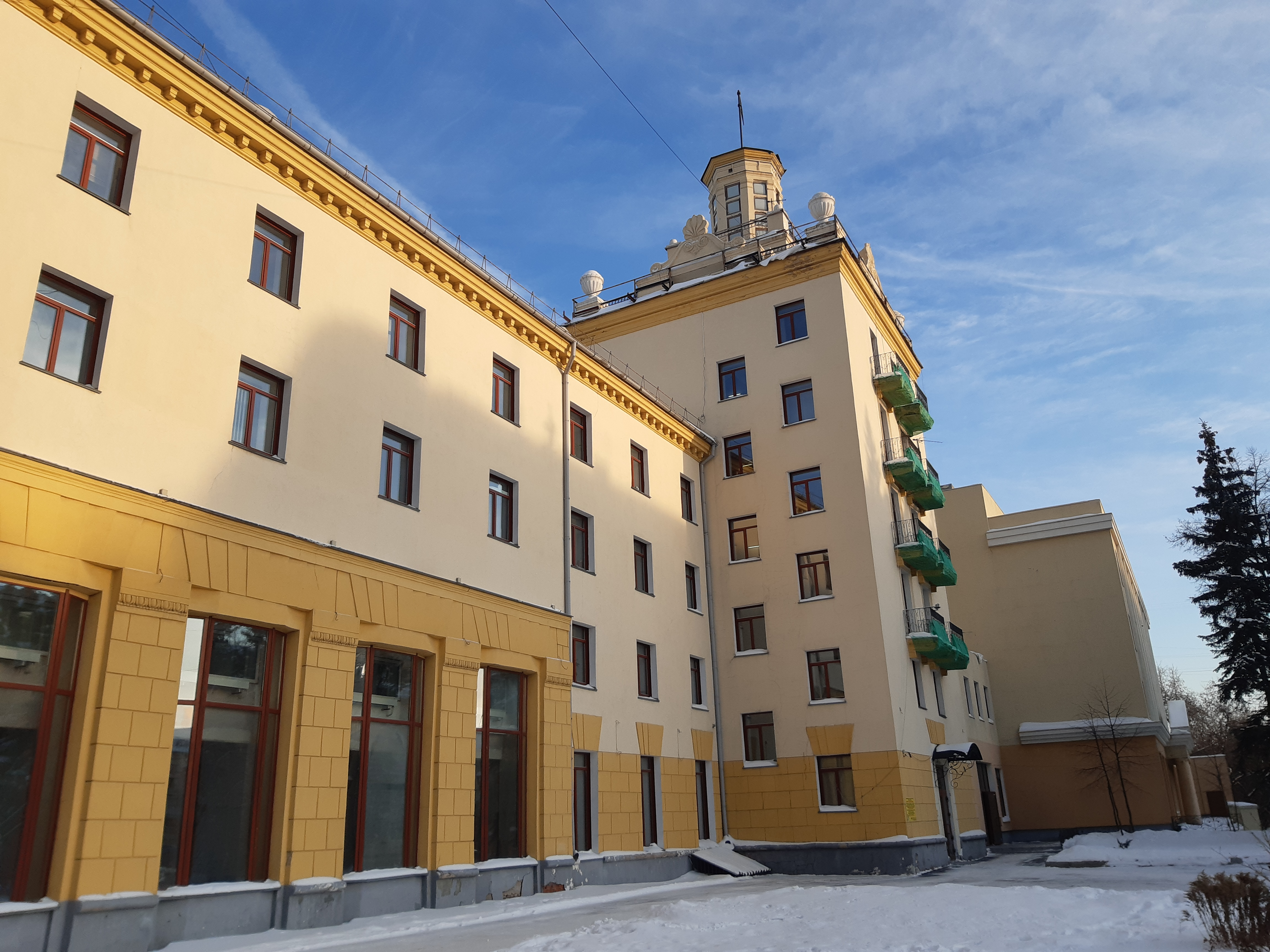 Bohdan Khmelnytsky Street 42, Kalininsky District, Novosibirsk.